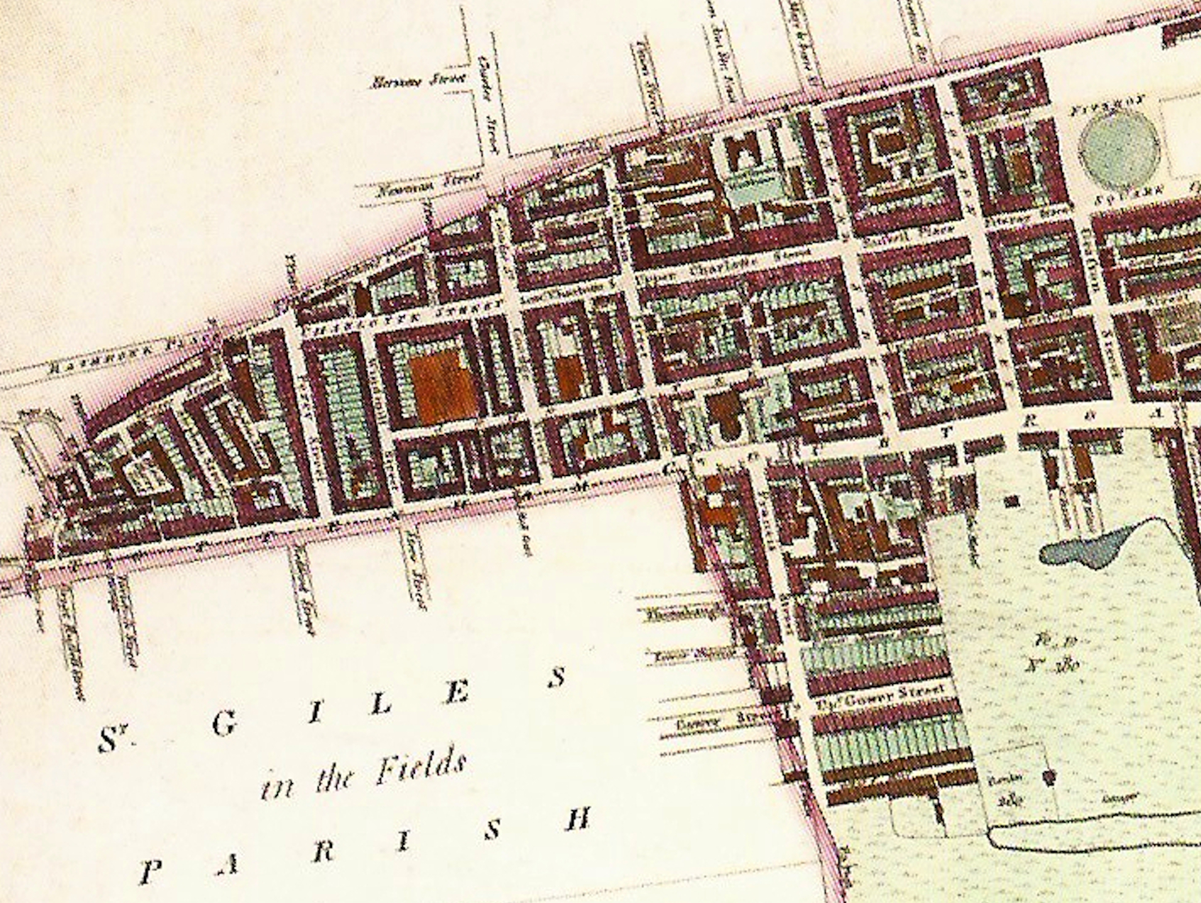 St Giles parish, 1804 by J Tompson. The north is to the right-hand side.